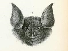 Hipposideros cyclops (syn. Phyllorhina cyclops), head